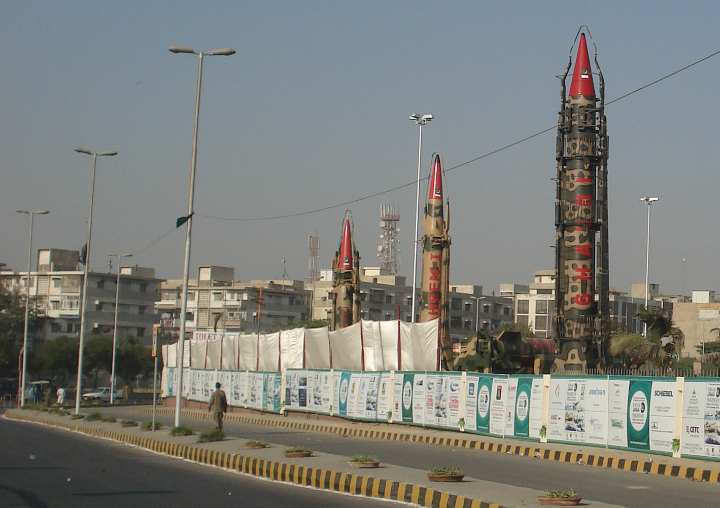 The Ghauri–I (first on right) display at the IDEAS exhibition held in Karachi, mounted in its TEL launch mechanism. c. 2008.